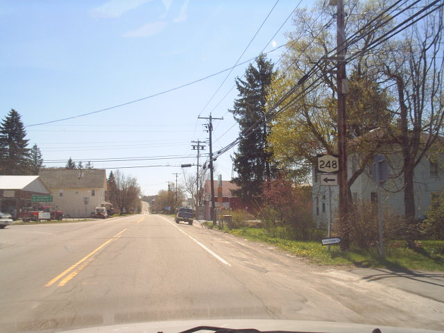 New York State Route 19 southbound at New York State Route 248 in the hamlet of Stannards.